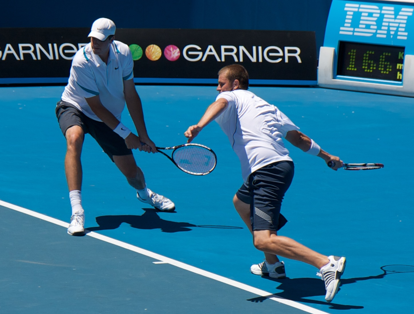 John Isner and Mardy Fish at 2009 Australian Open, Melbourne, Australia.